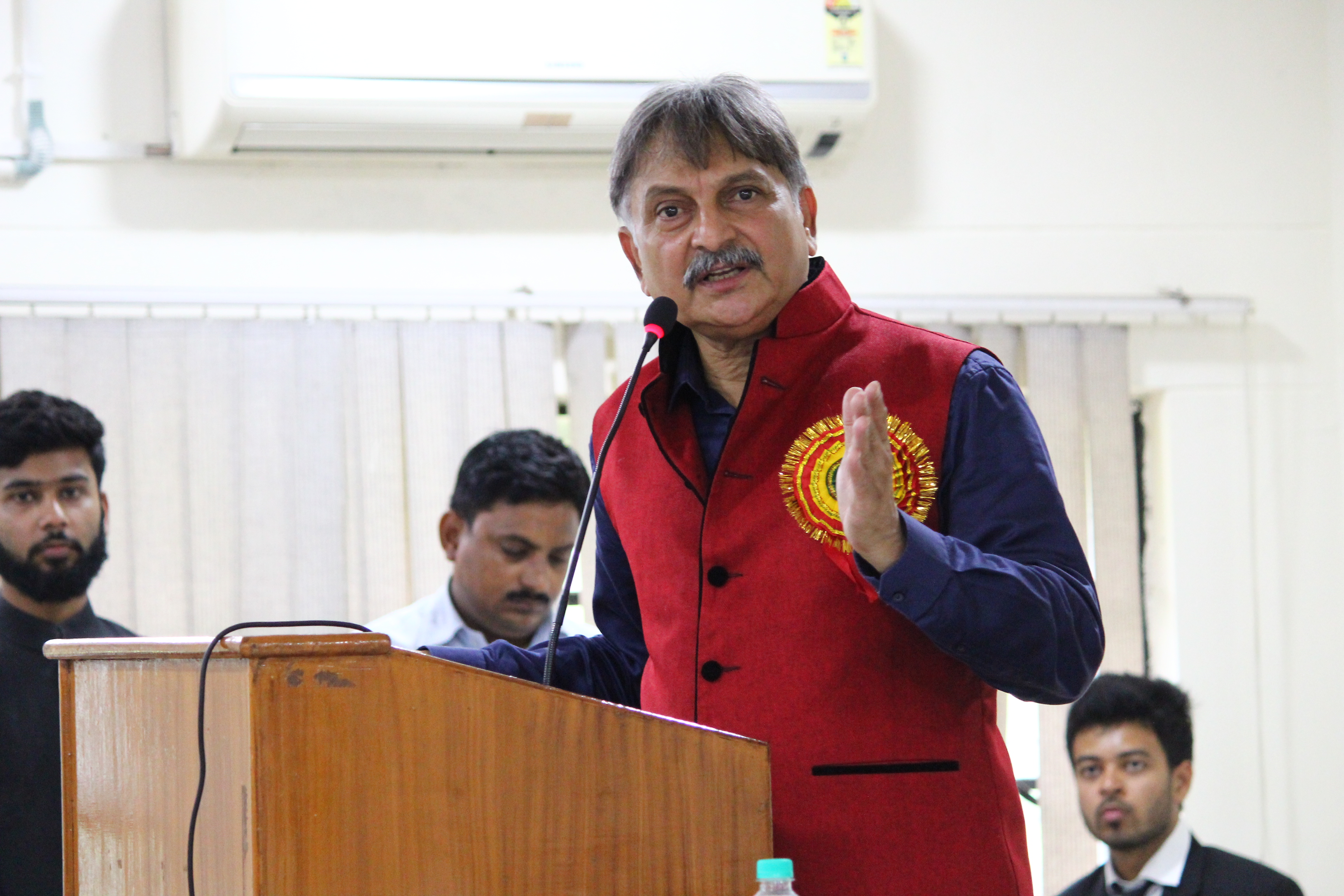 Prof. Mohd Shakeel Ahmed Samdani, Dean, Faculty of Law, AMU addressing the gathering in an event at Faculty of Law, Aligarh Muslim University, Aligarh.